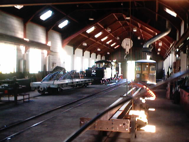 Brecon Mountain Railway workshop The workshop is part of the station building at Pant. Visitors may view the workshop from a gallery, but access to the workshop floor is not allowed. At the date of this photo, July 2nd 2001, the locomotive being overhauled is number 2